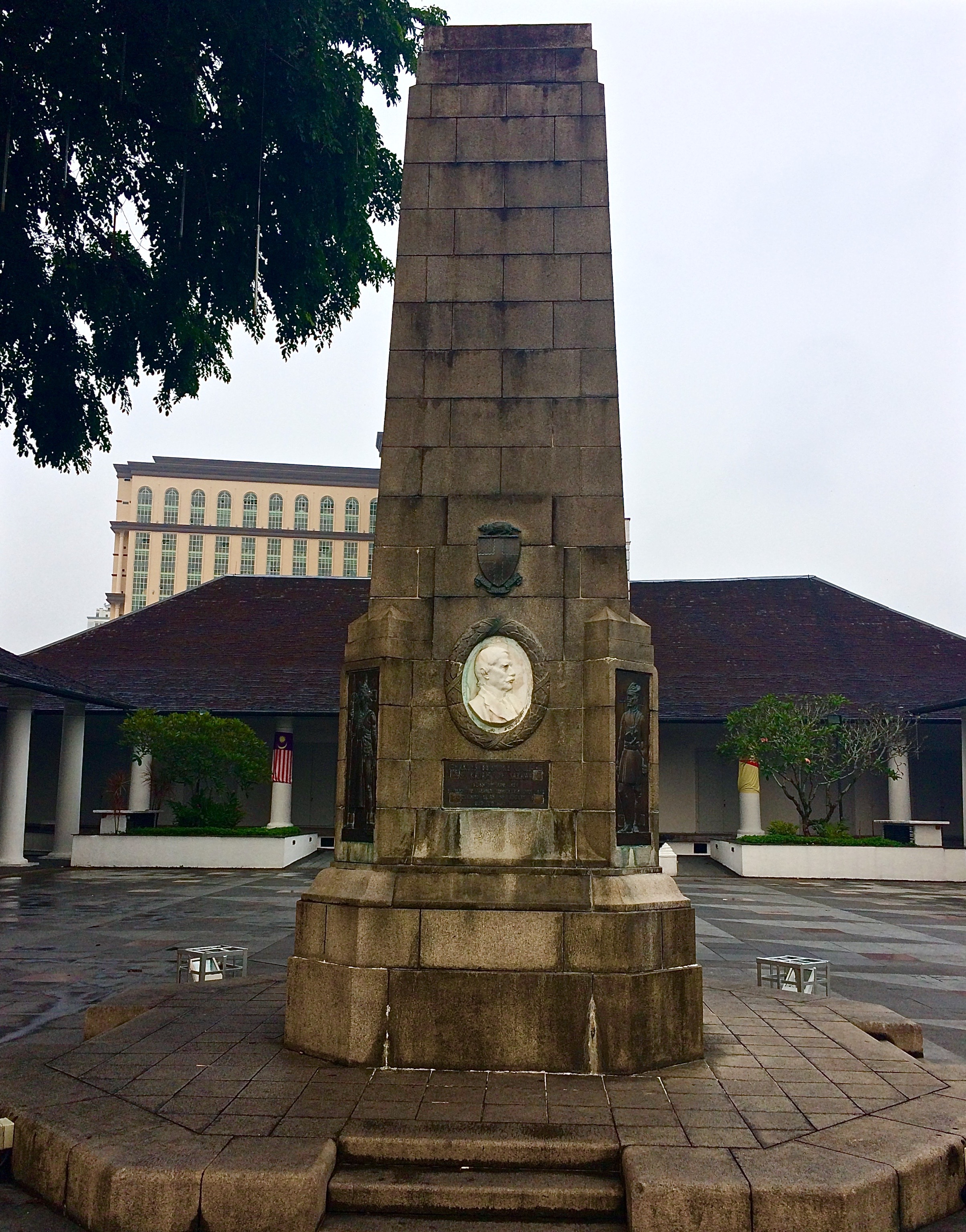 Front view of the Charles Brooke Memorial. Charles Brooke was the second Rajah of the Kingdom of Sarawak.